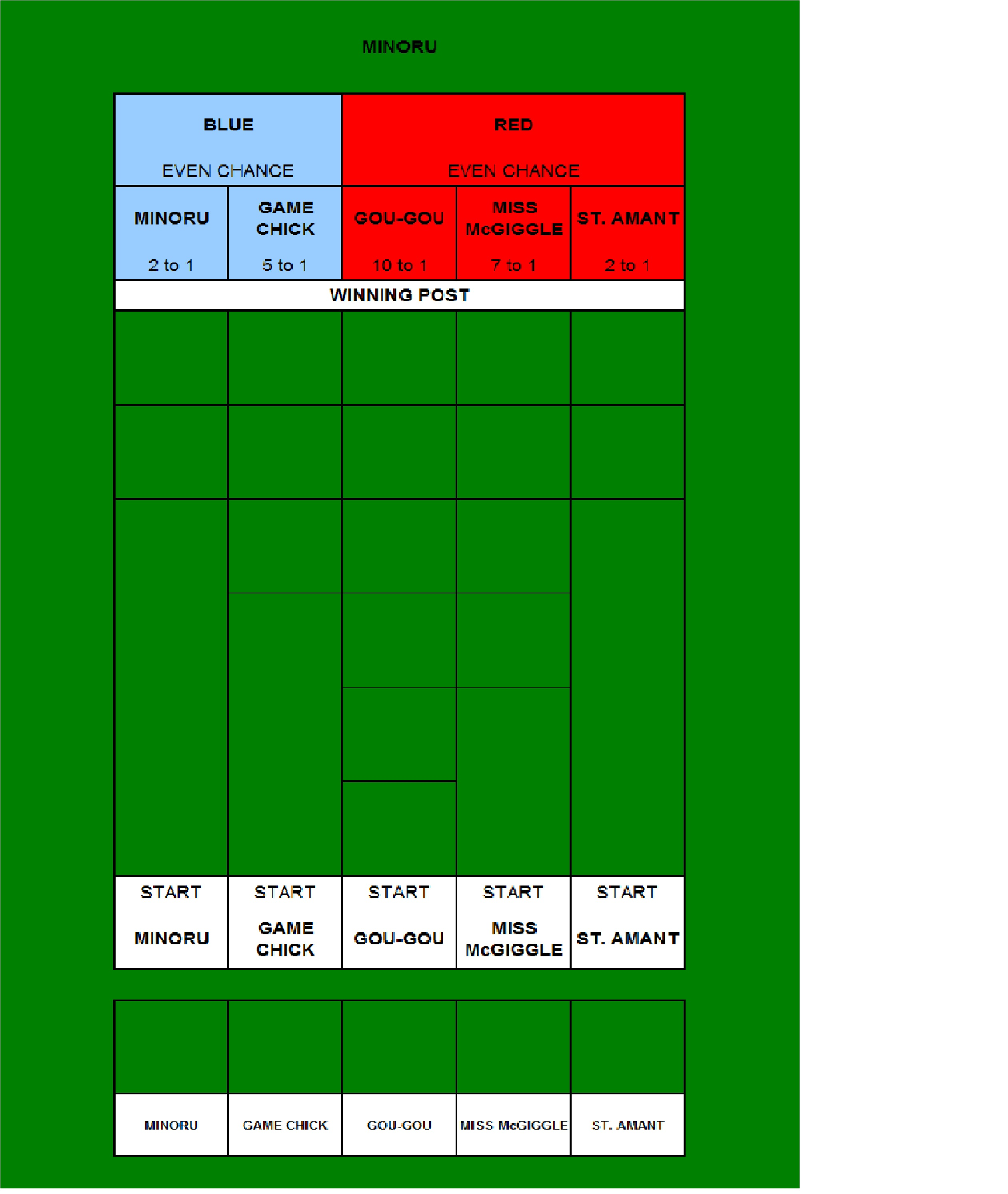 Game plan for Minoru